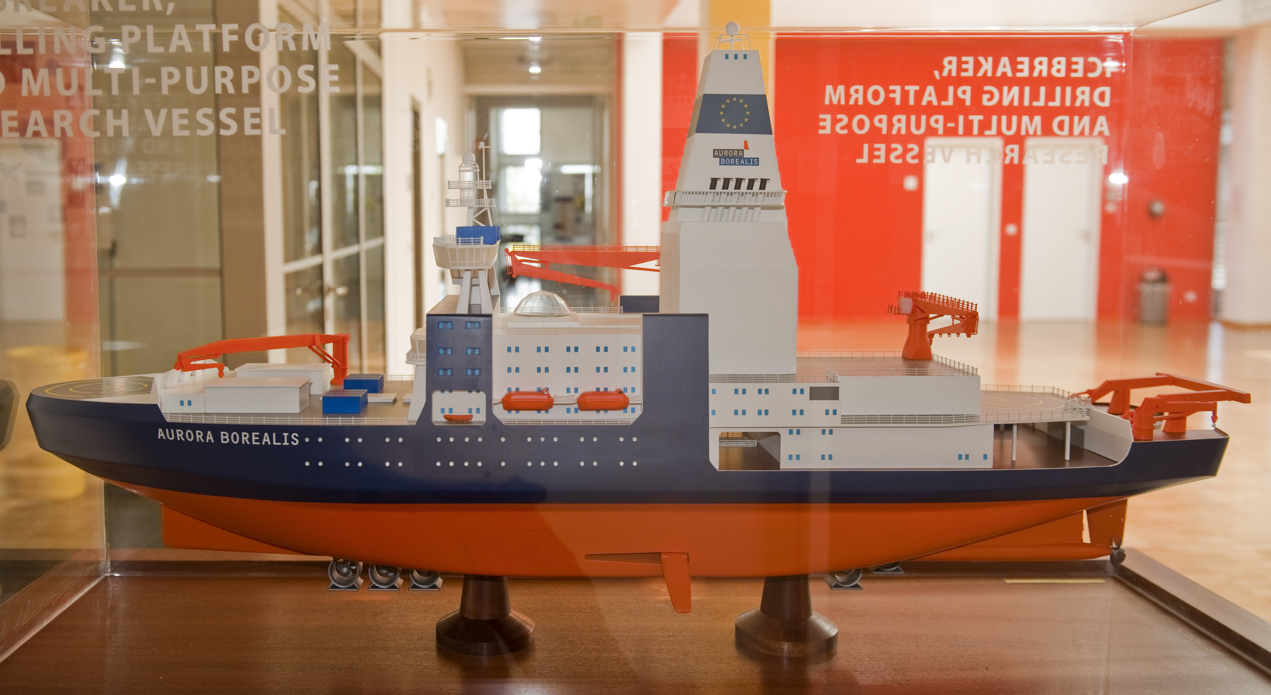 Ships model of Aurora Borealis at AWI Bremerhaven. A consortium of 15 partners of 10 European nations have made a pact to start making plans to build and manage the vessel. The Aurora Borealis is a European Research Icebreaker and will be used for……research expeditions in the Arctic Ocean and the Antarctic continental shelf seas during all seasons of the year.